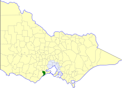 Location of the former Shire of Barrabool within Victoria.